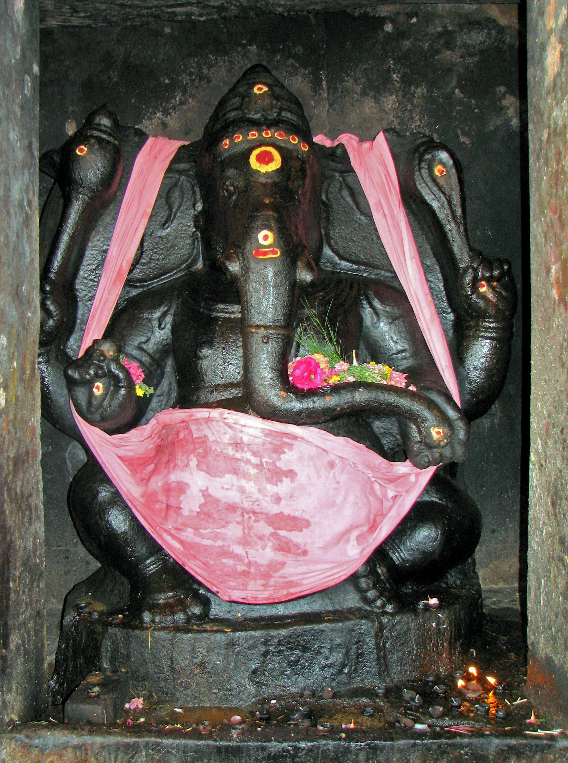 Sculpture of Ganesha at Brihadeeswarar Temple, Thanjavur, India